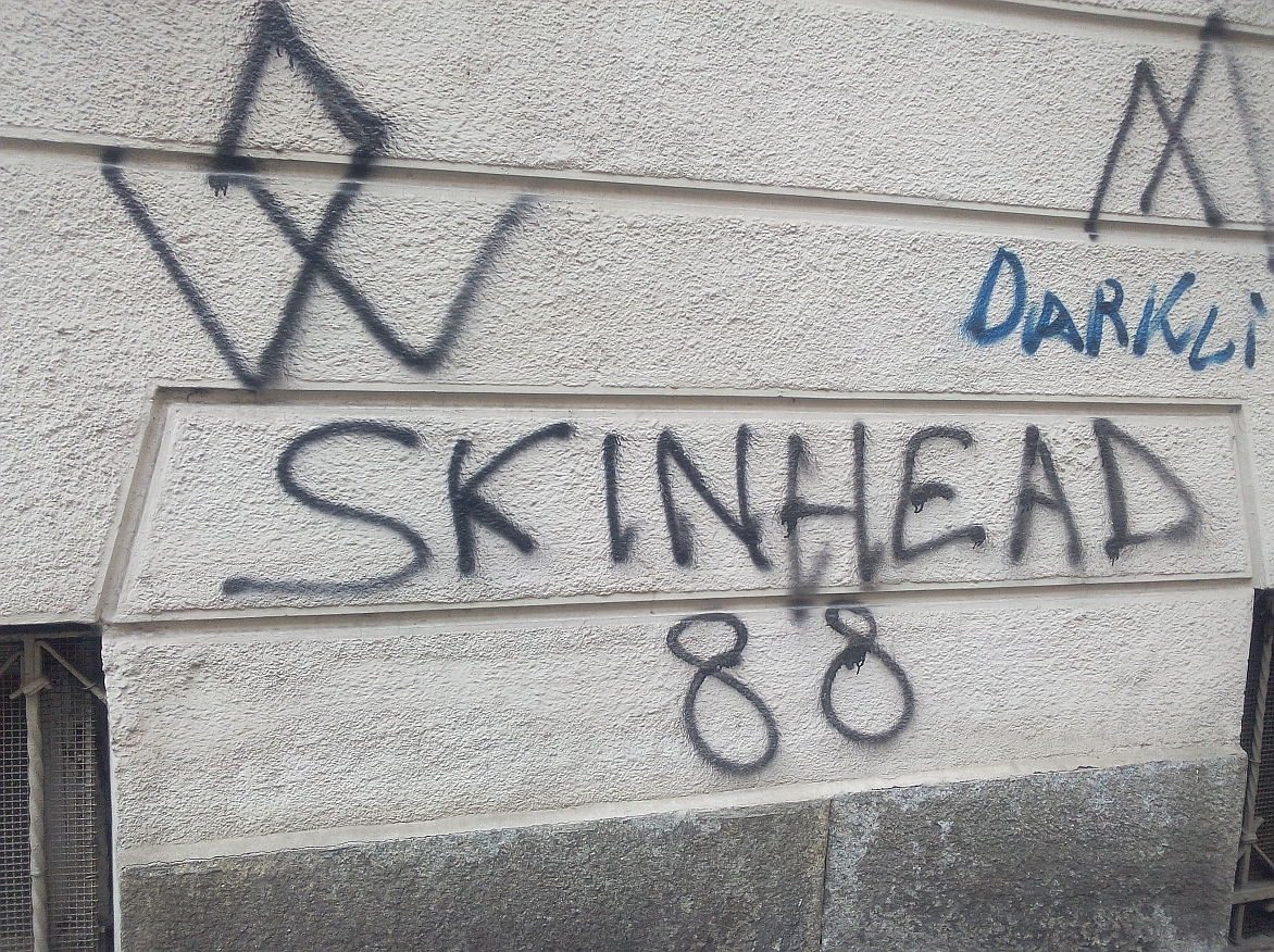 Skinhead88 graffiti in Turin (Italy)